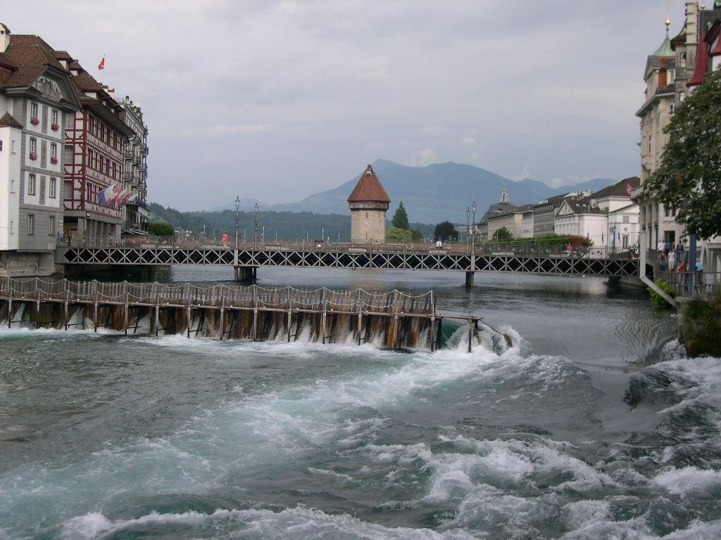 Needle dam in the Reuss River, Lucerne, Switzerland